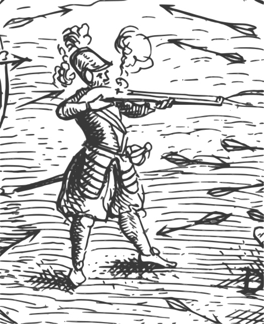 Detail from "Deffaite des Yroquois au Lac de Champlain." Drawn by Samuel de Champlain for his "Voyages" (1613)